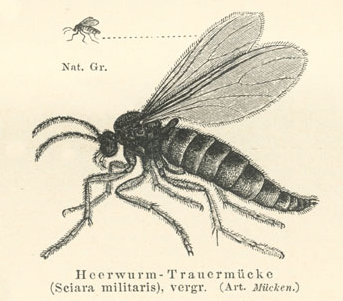 The small fungus gnat Sciara militaris, cropped from File:Meyers b16 s1010a.jpg